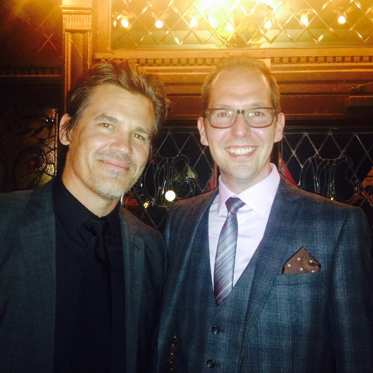 Steve Gore and US actor Josh Brolin at the Magic Castle in Hollywood